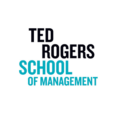 Ted Rogers School of Management logo